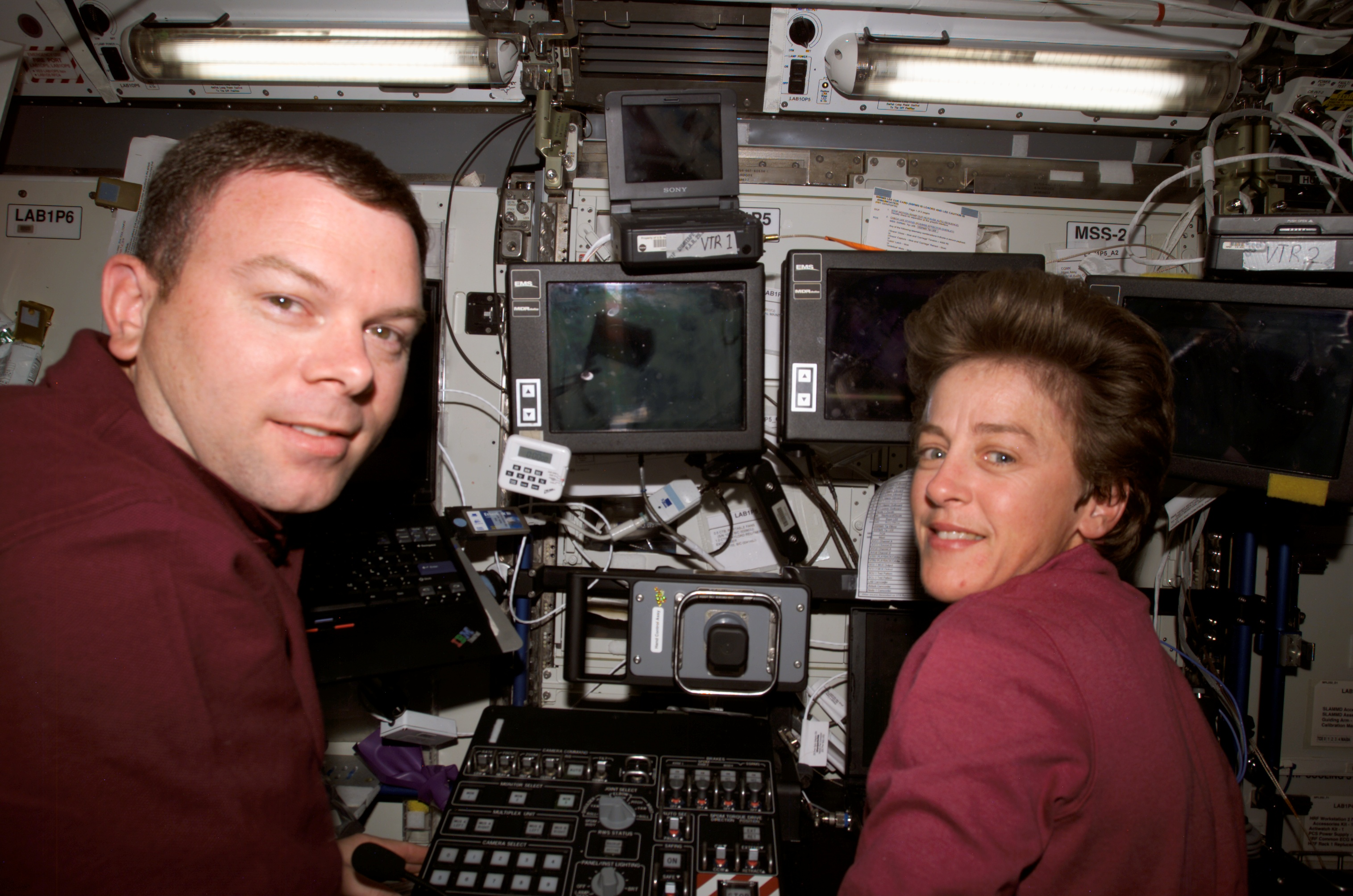 On the early Friday morning agenda for Astronauts James M. Kelly, pilot, and Wendy B. Lawrence, mission specialist, was important robotics duty at the controls of the Canadarm2 in the U.S. Lab, Destiny, on the International Space Station.